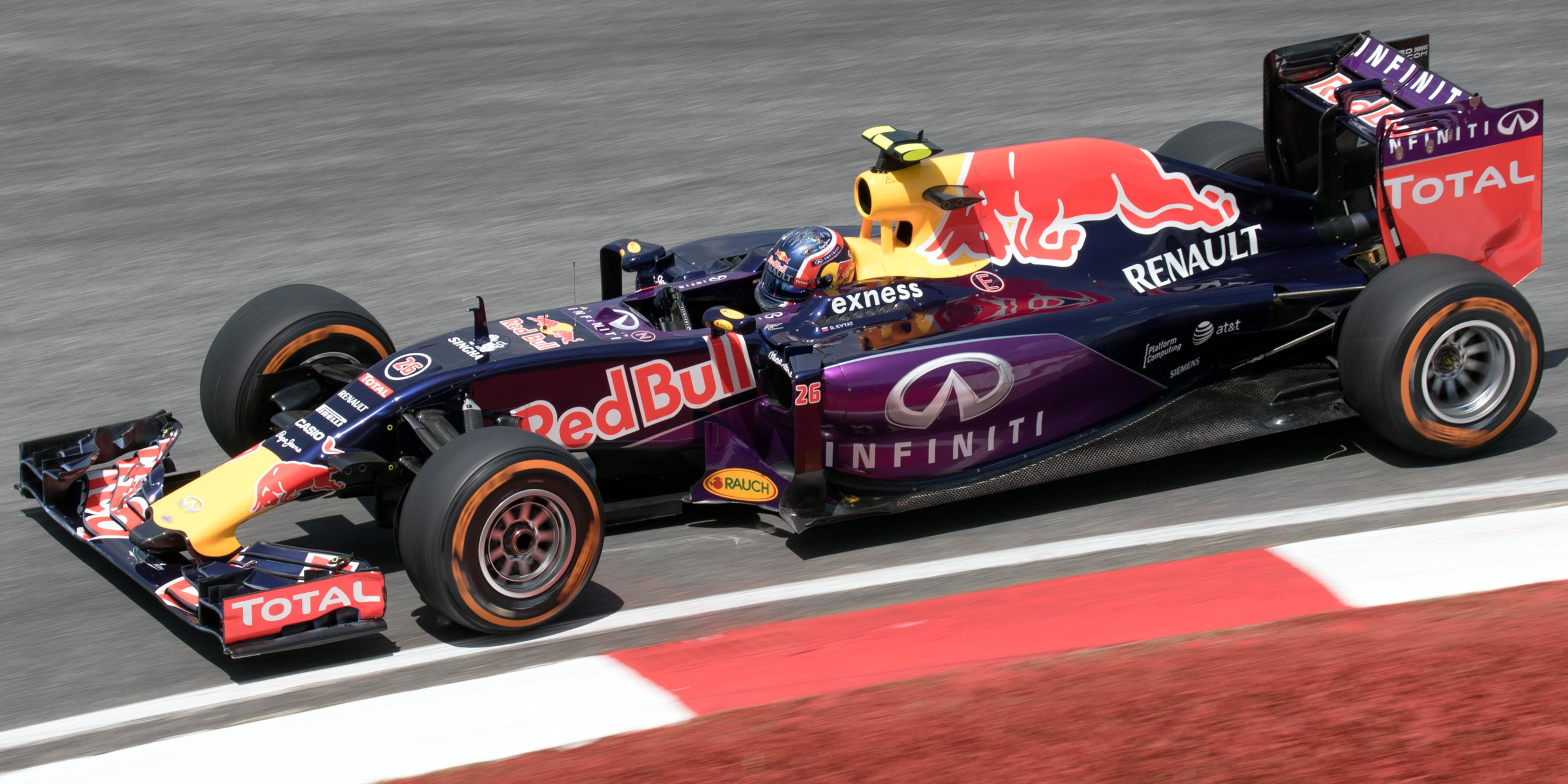 Formula One 2015 Rd.2 Malaysian GP: Daniil Kvyat (Red Bull)